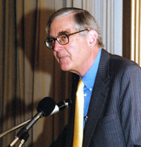 Ambassador Warren Zimmermann speaking at the Library of Congress Oct. 24.